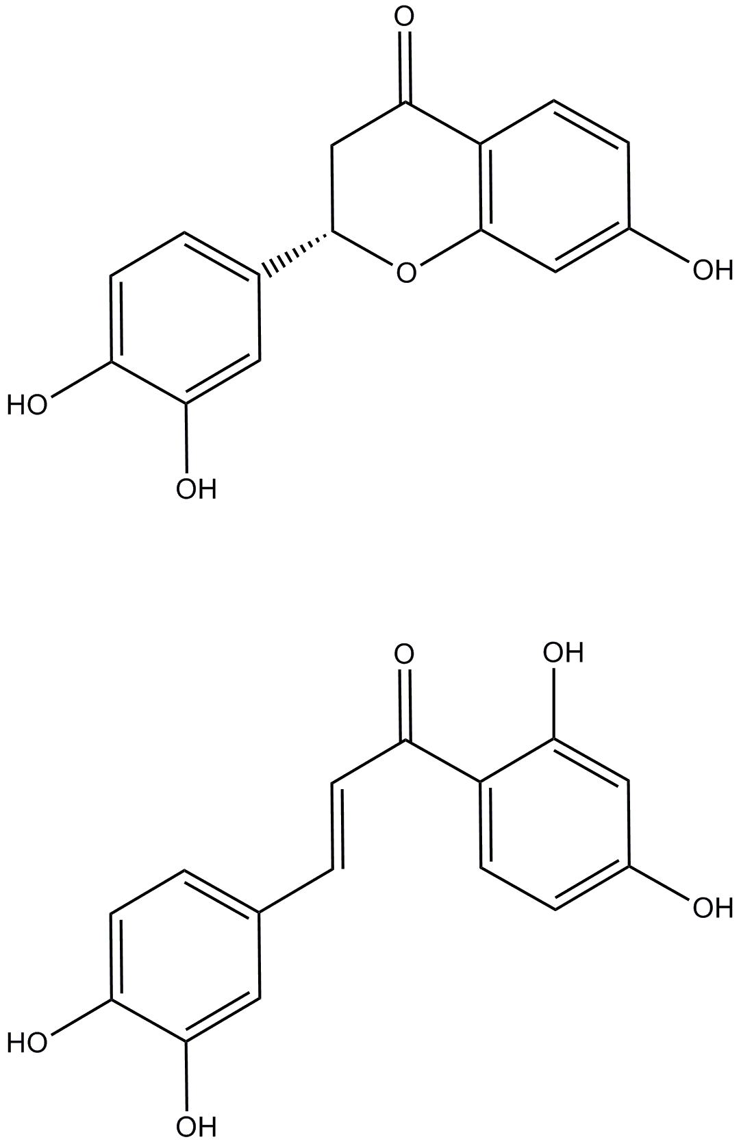 structures of butin and butein